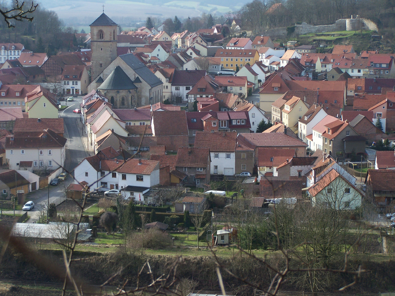 The City of Creuzburg with church St.Nikolai.